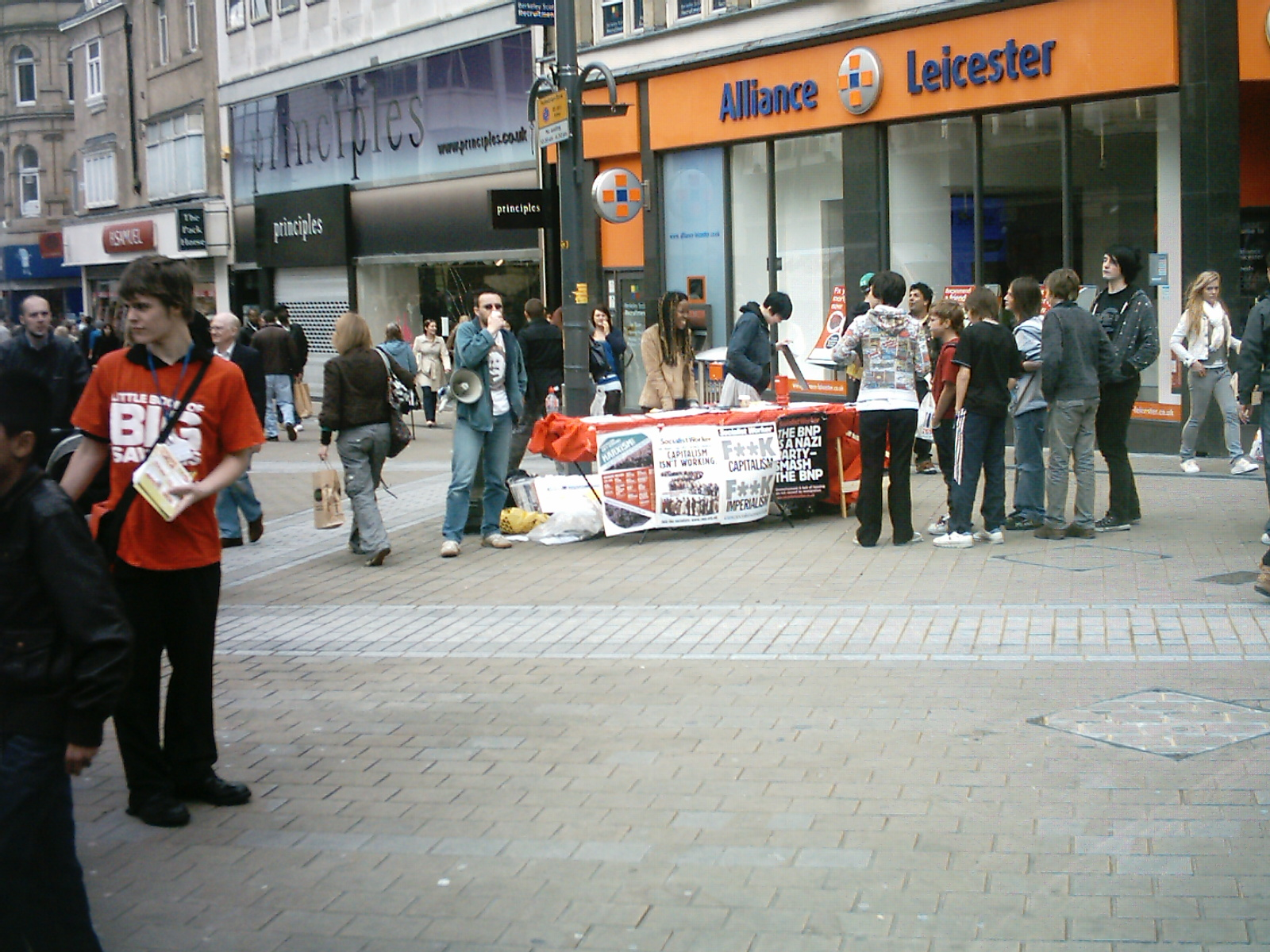 The Socialist Worker being sold by street campaigners (over MP's expenses scandal of 2009) on Briggate in Leeds, West Yorkshire, UK. Photograph taken on 9th May 2009.